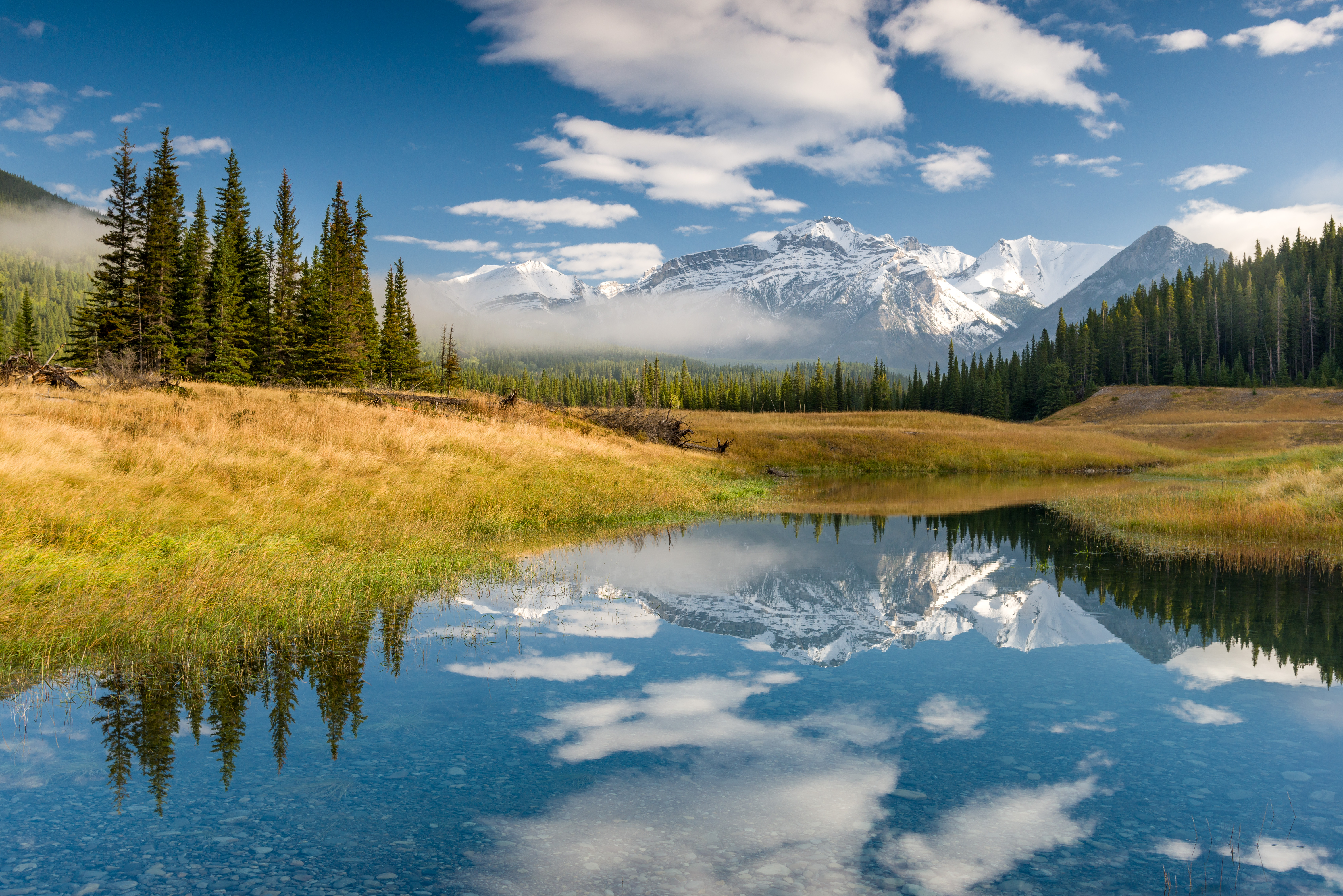 Canadian Rockies in the morning. Banff National Park.